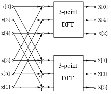 an illustration of how prime factor FFT works in the case N=6